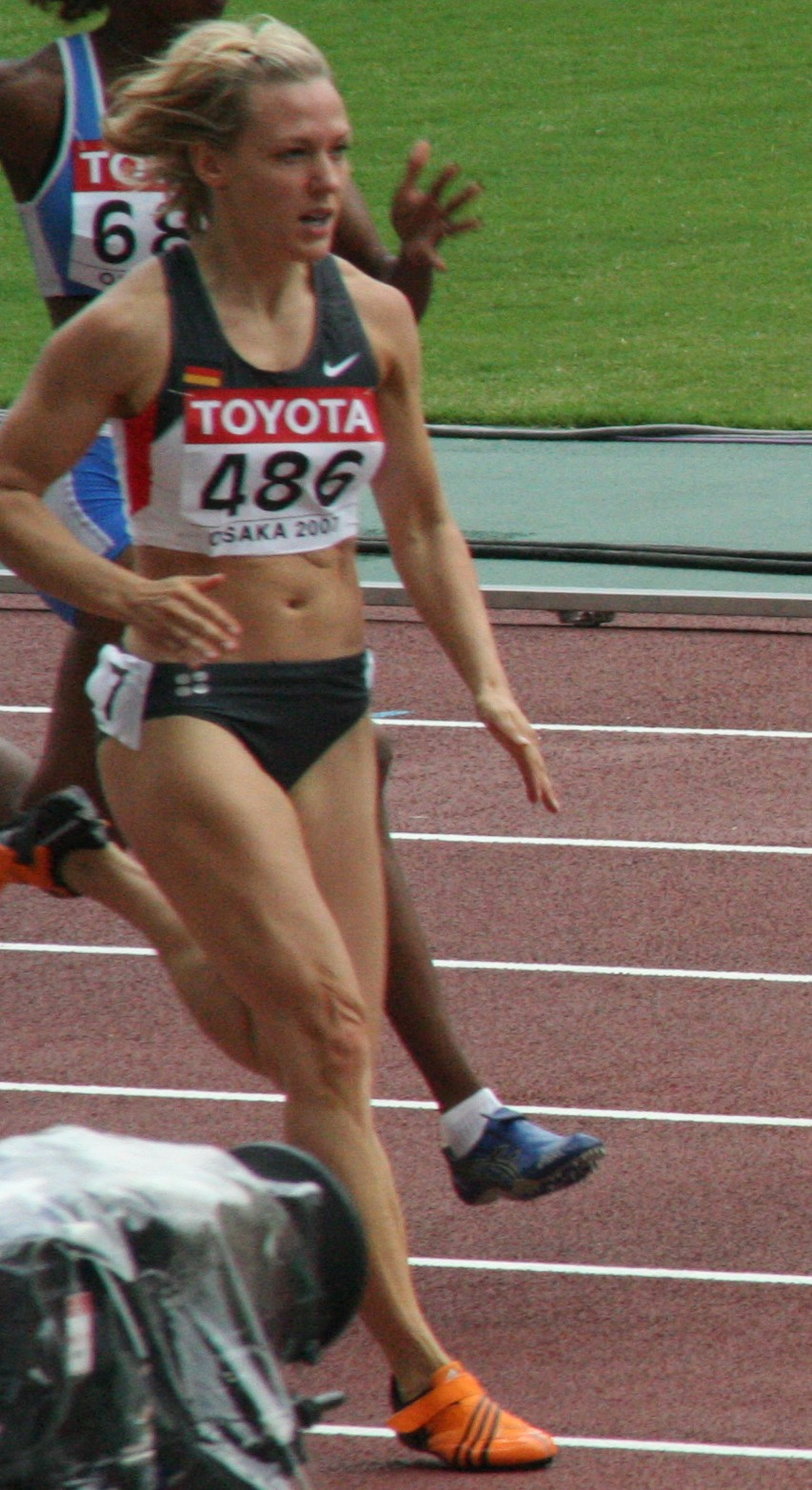 World Athletics Championships 2007 in Osaka - German 200 metres runner Cathleen Tschirch